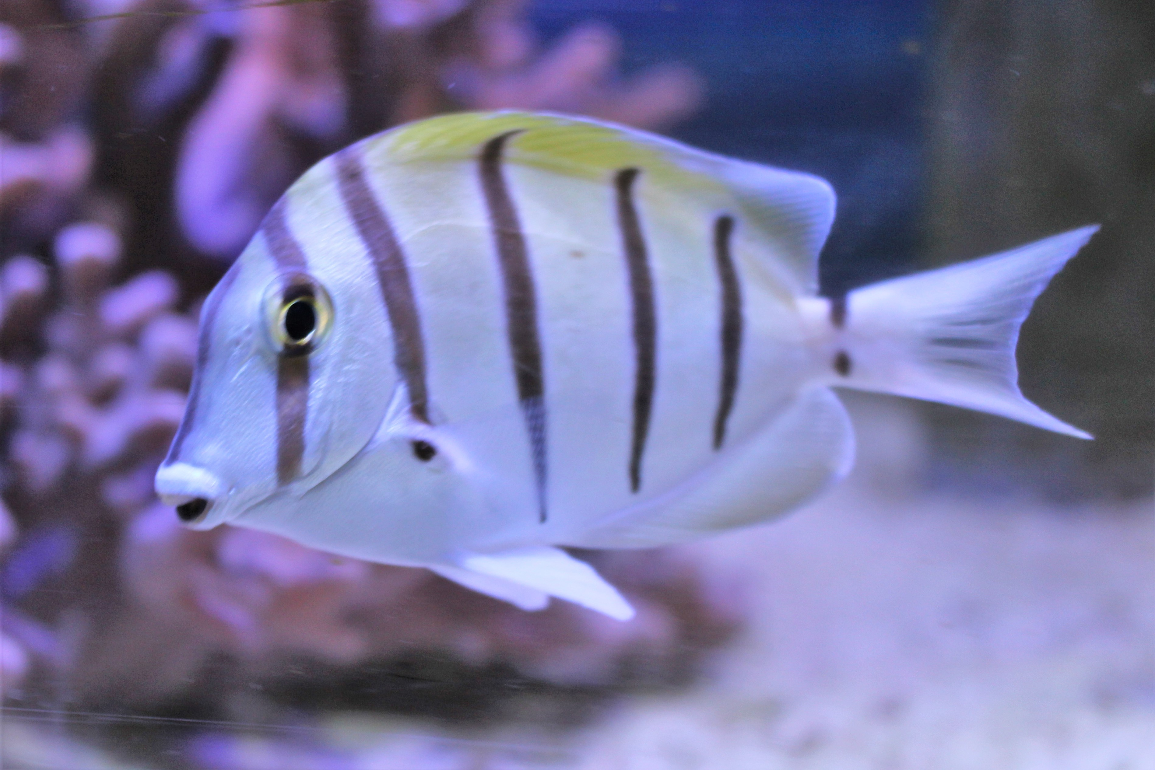 Convict tang or convict surgeonfish (Acanthurus triostegus) at the Scarborough SEA LIFE Sanctuary in England.